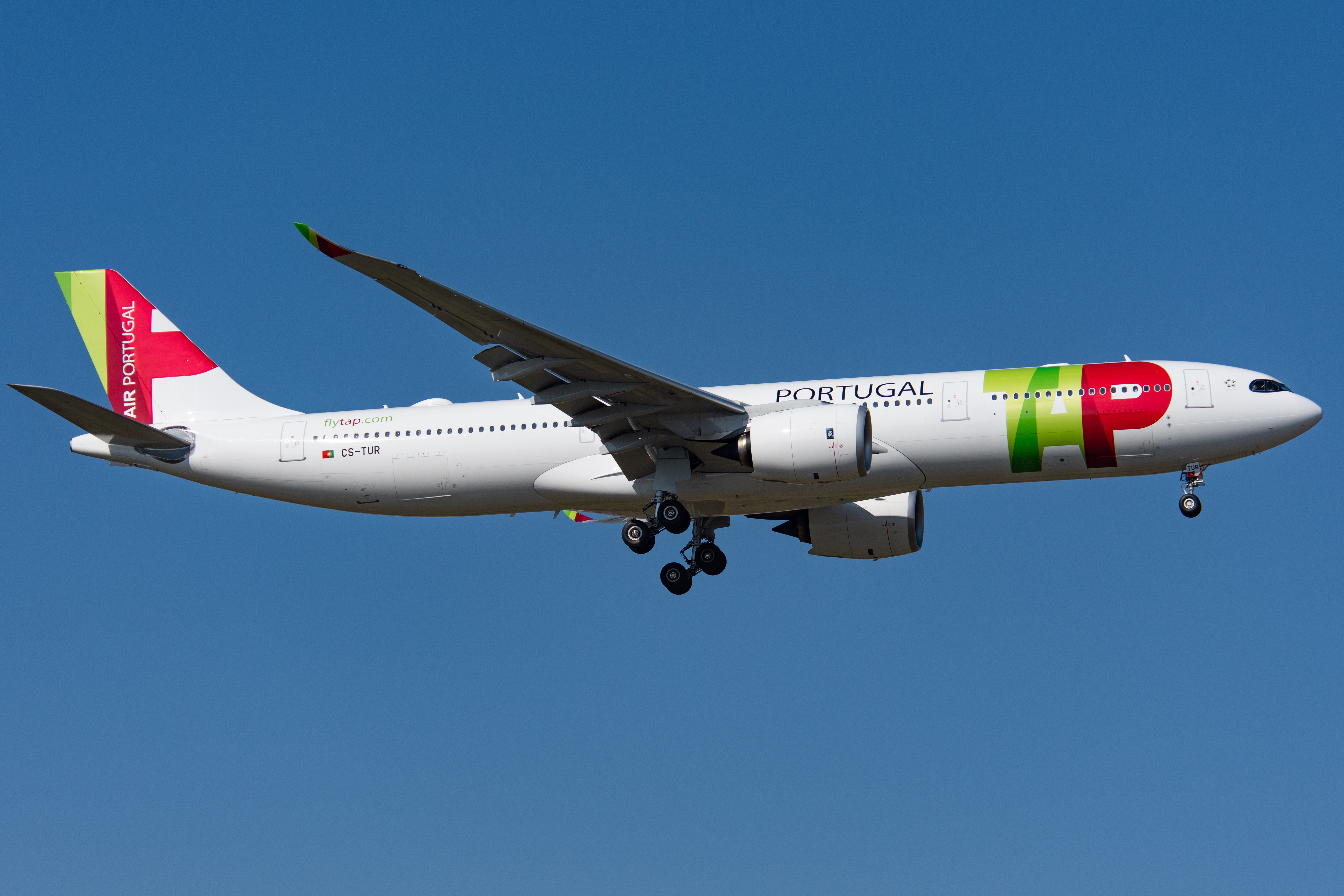 TAP 9185 from Lisbon. Bem-vindo a Pequim, Transportes Aéreos Portugueses A330neo!